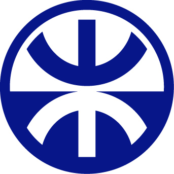 Logo of UFM as of 2016